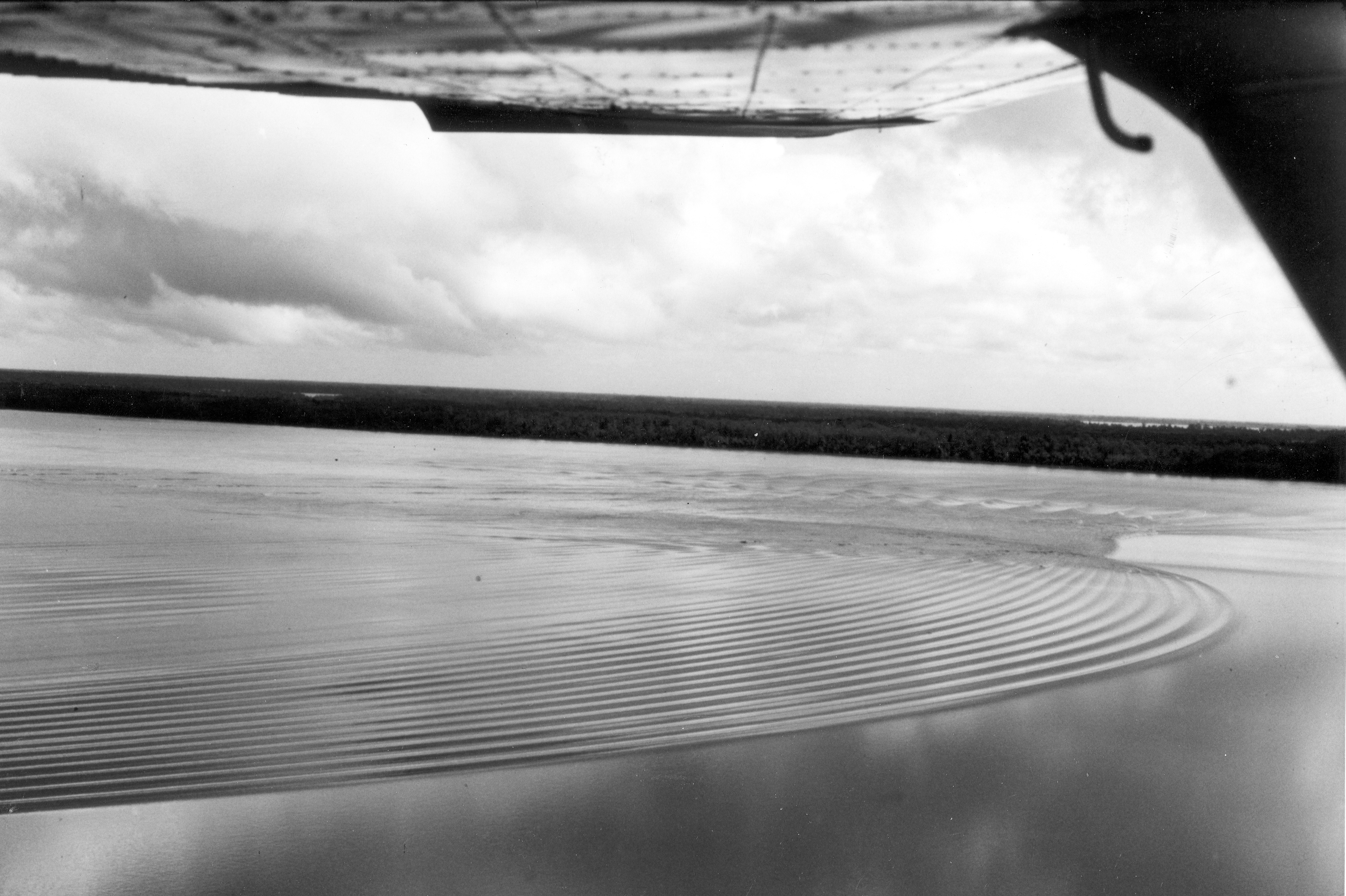 Description at USGS website:"Undular bore and whelps near the mouth of Araguari River, Brazil. View is oblique toward mouth from airplane at approximately 100 ft. altitude. Portion published as Figure 5 in U. S. Geological Survey, Circular 1022, 1988."Note: This undular bore (locally known as pororoca) is on the Araguari River in the Amapá state in north-eastern Brazil, see Tidal bore#South America. The bore propagates from left to right, against the stream of the river current.